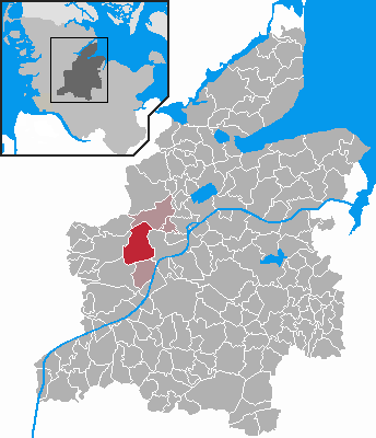 Locator maps of municipalities in Schleswig-Holstein - District Rendsburg-Eckernförde